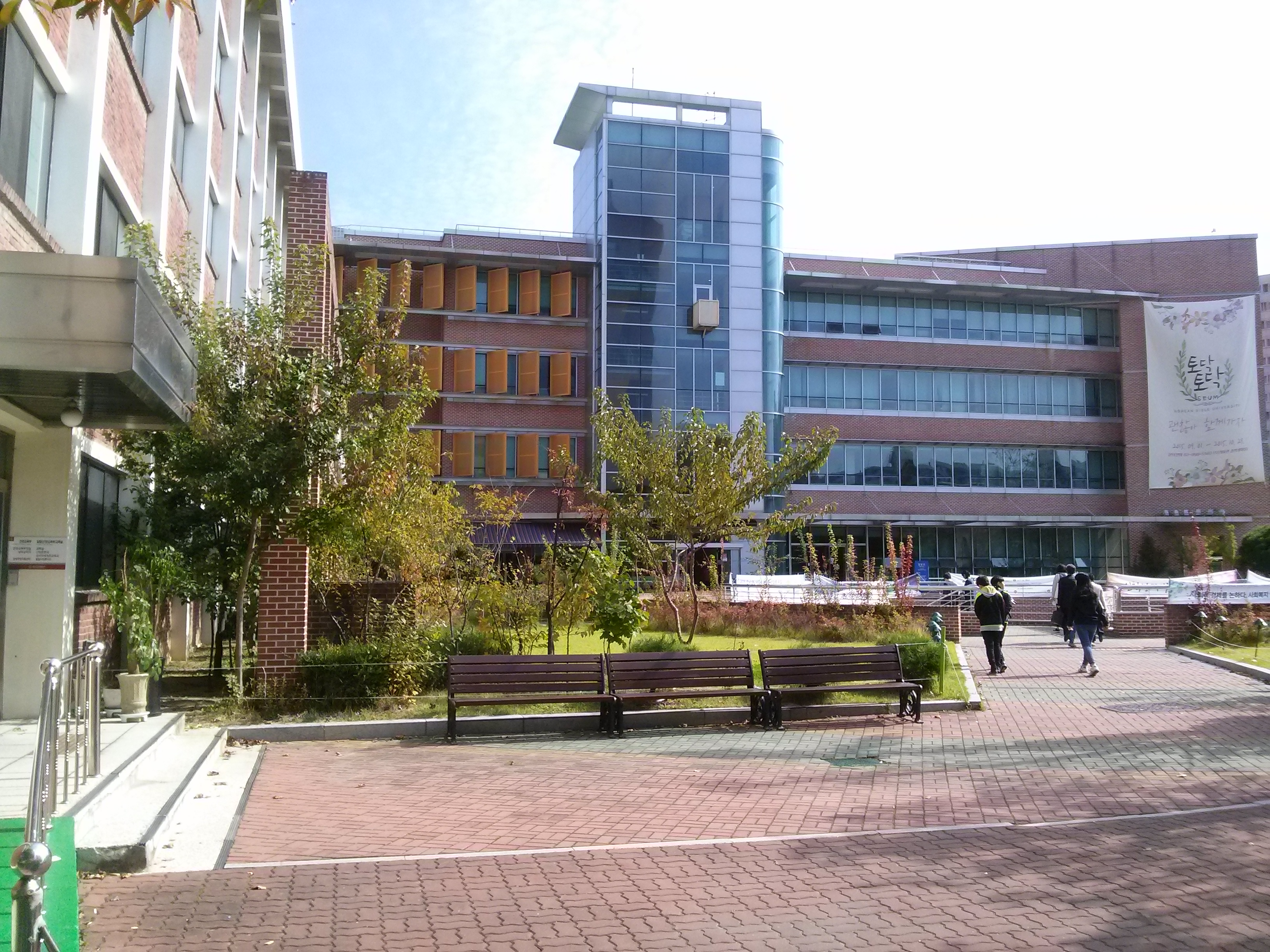 Korean Bible University, Seoul, Republic of Korea